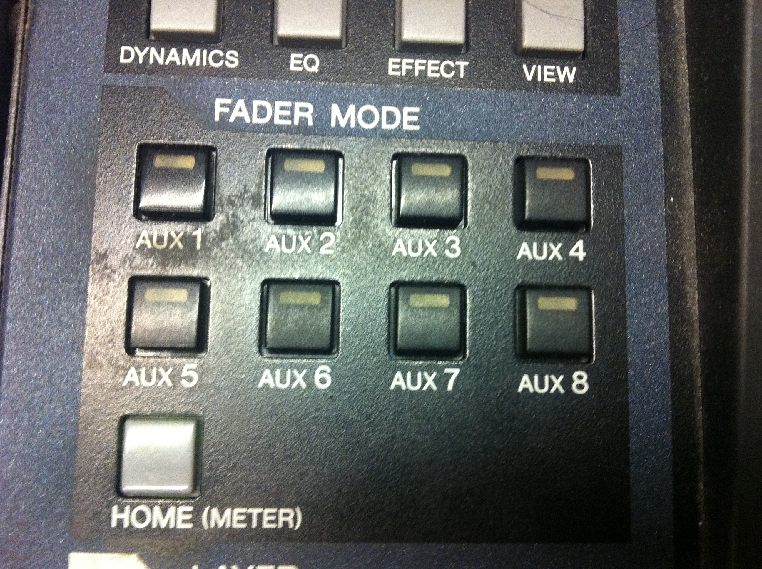 A picture of Aux buttons on a digital sounddesk